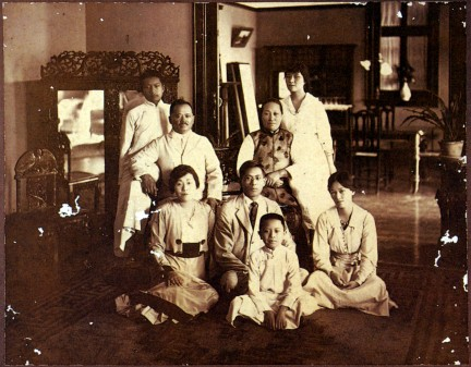 Soong Family